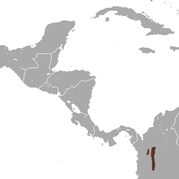 Medellin Small-eared Shrew (Cryptotis medellinia) range